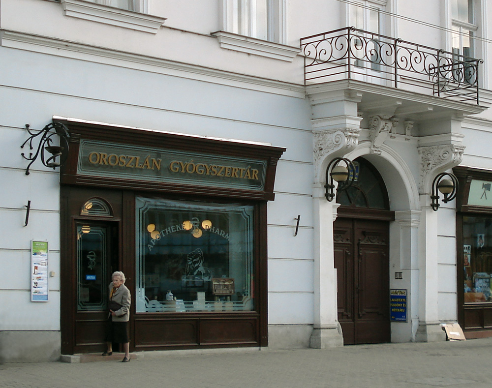 Old Pharmacy for (Golden) Lion (1811), Miskolc, Hungary